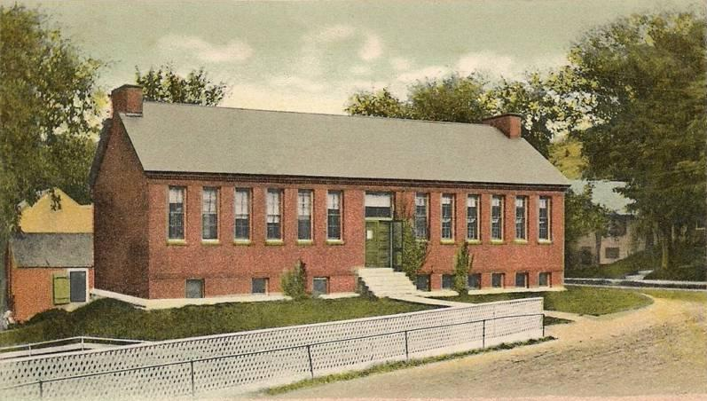 Peterborough Town Library, Peterborough, New Hampshire. Designed by George Shattuck Morison (1842-1903), noted bridge engineer, it was built in 1893. A portico was added in 1914 as a bequest from his sister.